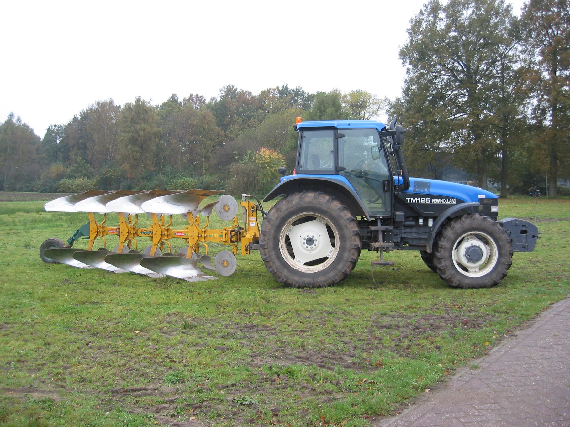 New Holland TM125 4x4 tractor with Rumptstad (Varimax) RSP 2000 plough